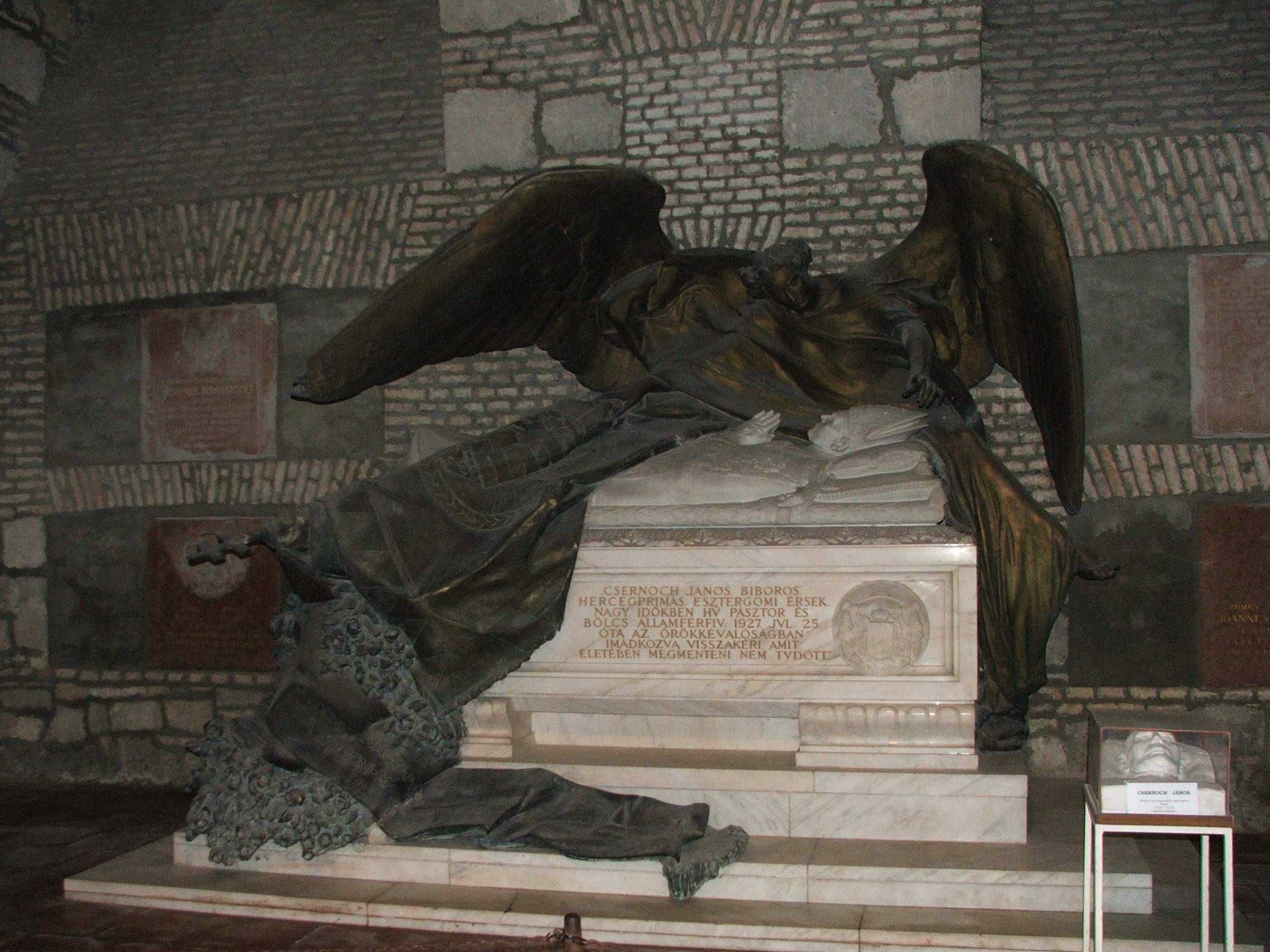 Crypt of János Csernoch in Esztergom Basilica,Sculptor:György Zala (1931)